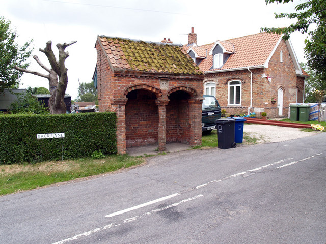 Detached Church Porch. I theorise that this structure on Back Lane, Searby,immediately opposite the church is a detached porch. It is marked with a cross above the central column. The building in the background to the right is the Old School House, now a private residence.